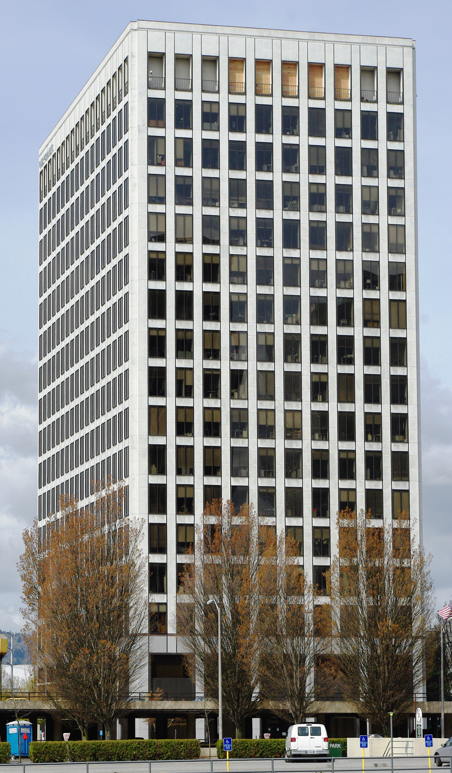 Kaiser Permanente office building in the Lloyd District in Portland, Oregon.